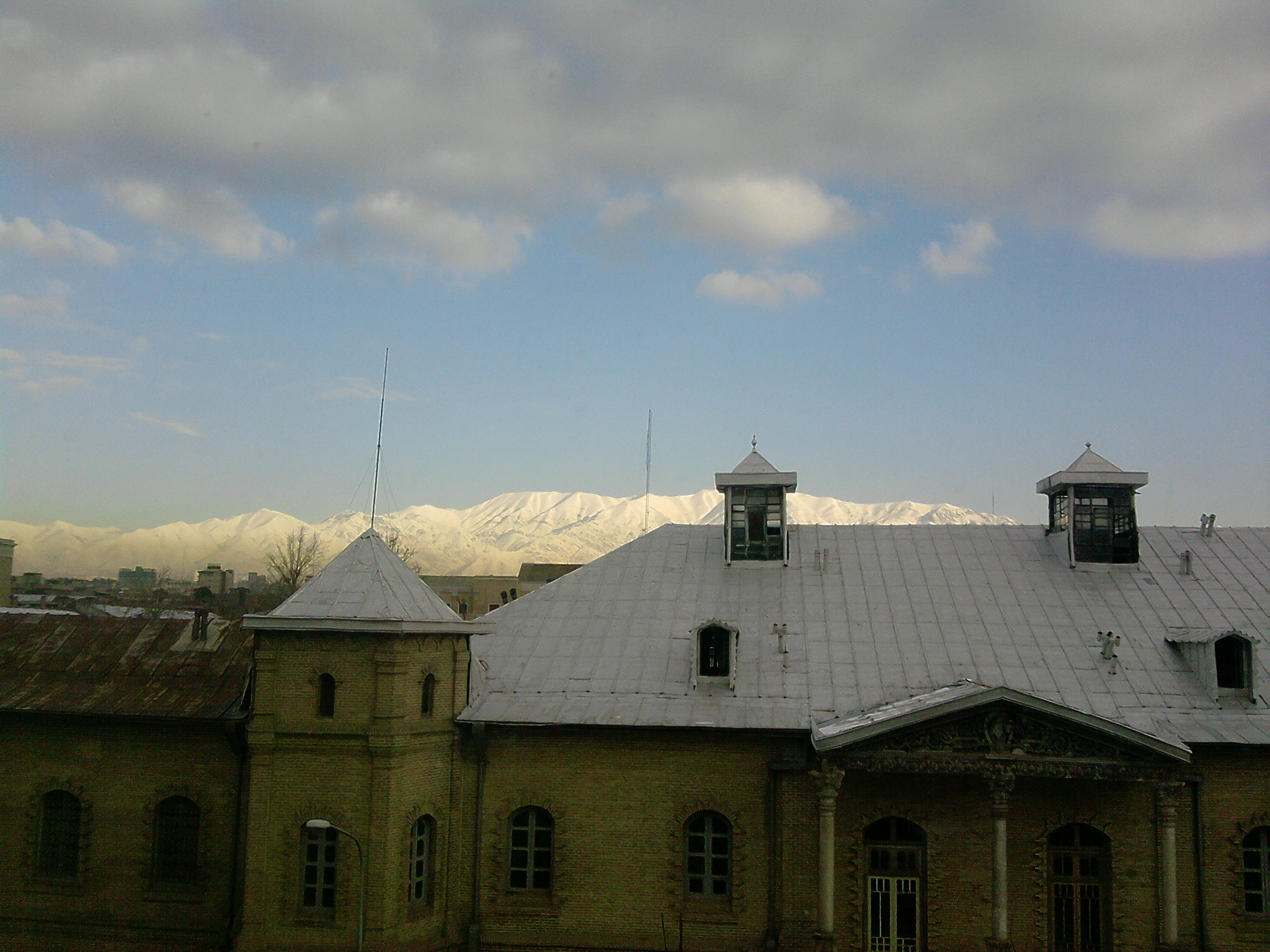 SETAD ARTESH NOW ART COLLEGE AND MINISTRY OF FM